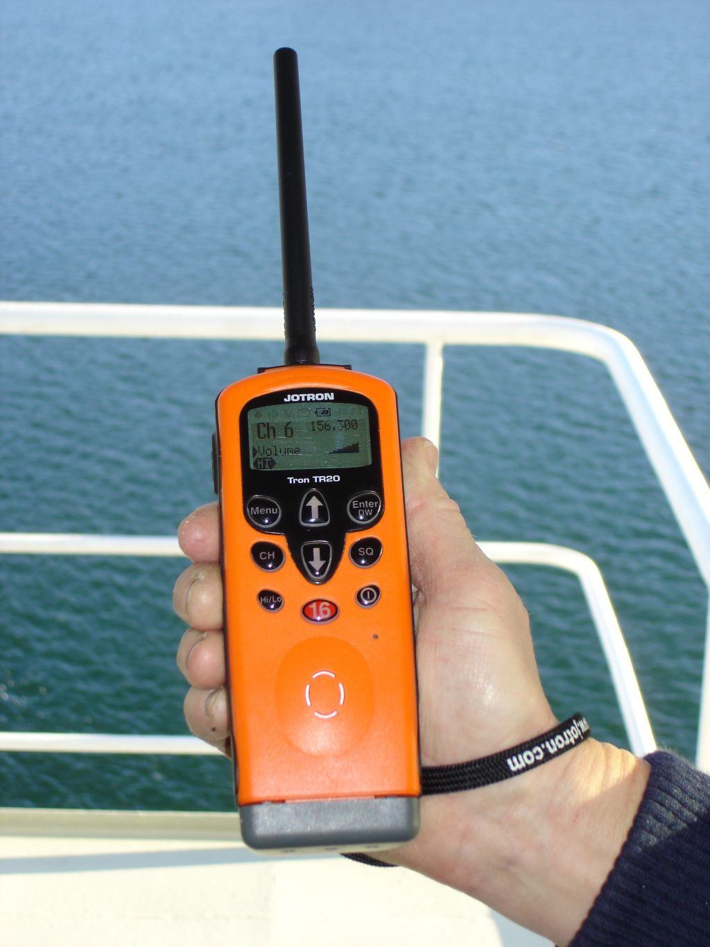 The picture shows a standard handheld maritime VHF as required under the GMDSS rules for merchant vessels. Picture taken onboard the M/F Bastø 2 18 November 2005.